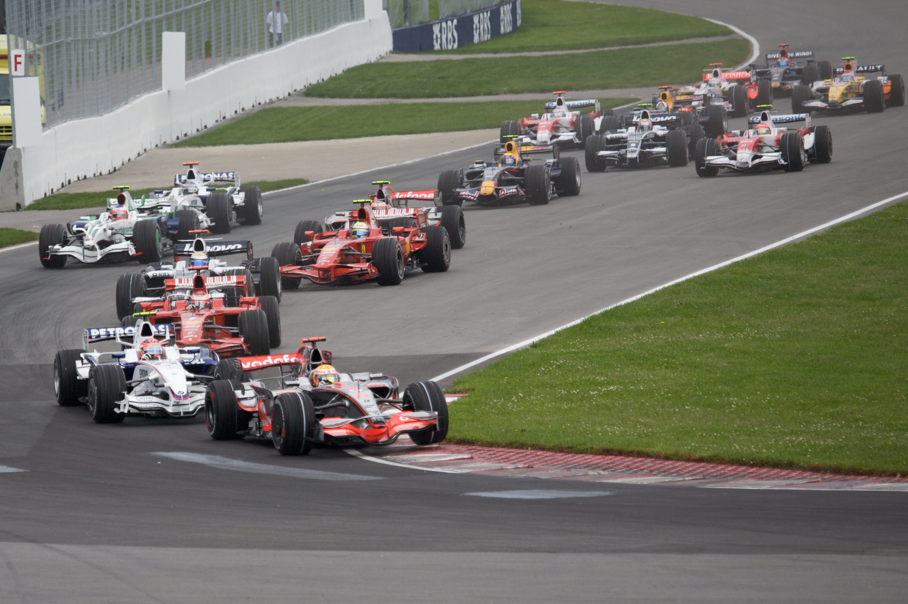 Lewis, Robert, Kimi, Fernando, Nico, and Felipe all hold their positions. Nick goes wide behind Barrichello.